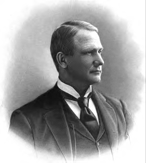 Photograph of Rufus A. Ayers, published in Men of Mark in Virginia, Lyon G. Tyler, ed., published 1907, available for free download on Google books